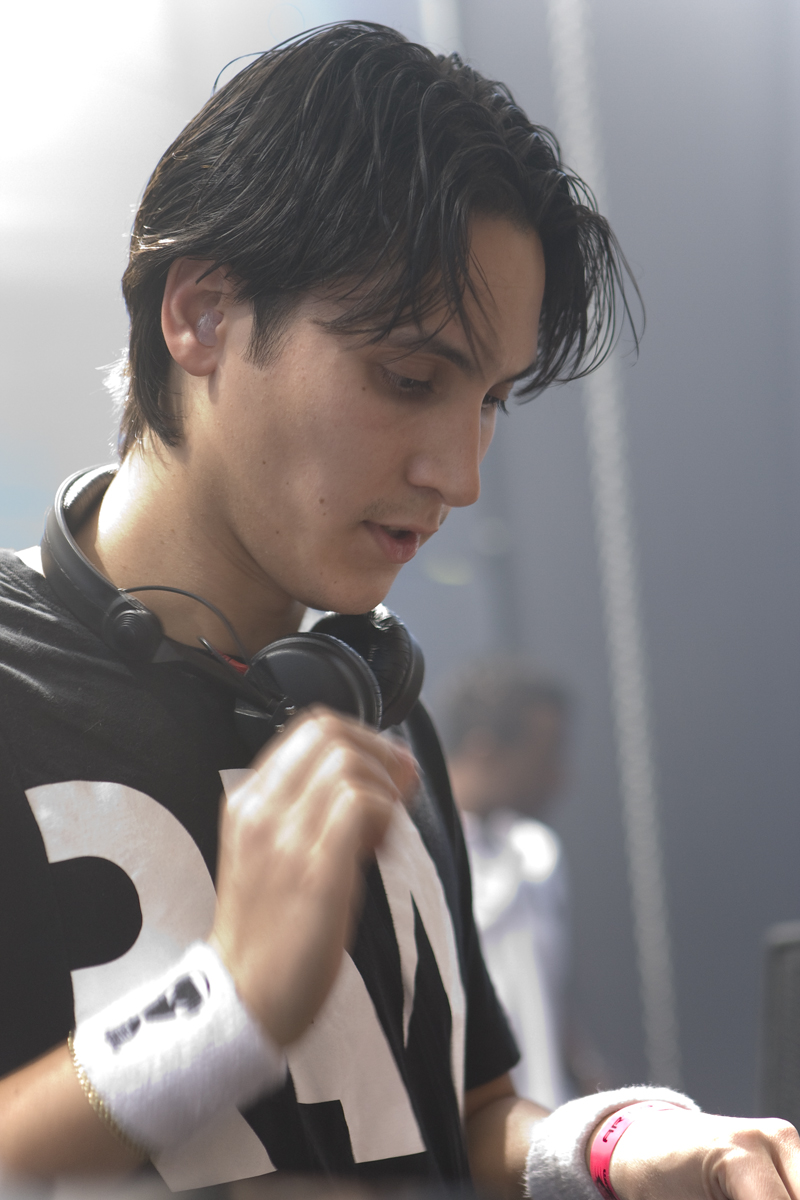 DJ Ophidian at Intoxicated 2009